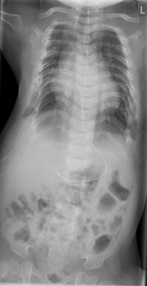 X-Rax 11 m Newborn with asphyxiating thoraxic dystrophy Jeune